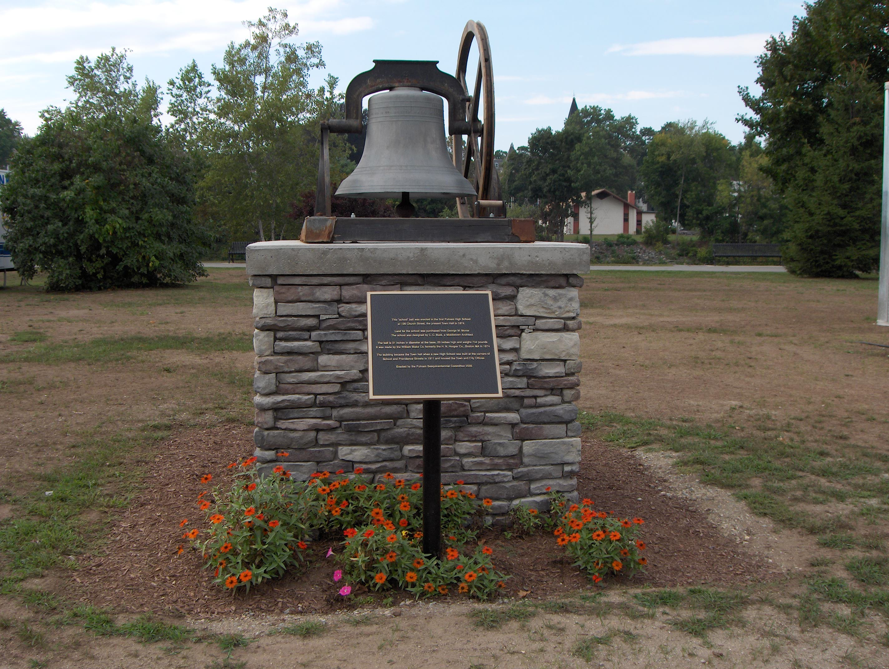 Tower bell of Putnam, Connecticut